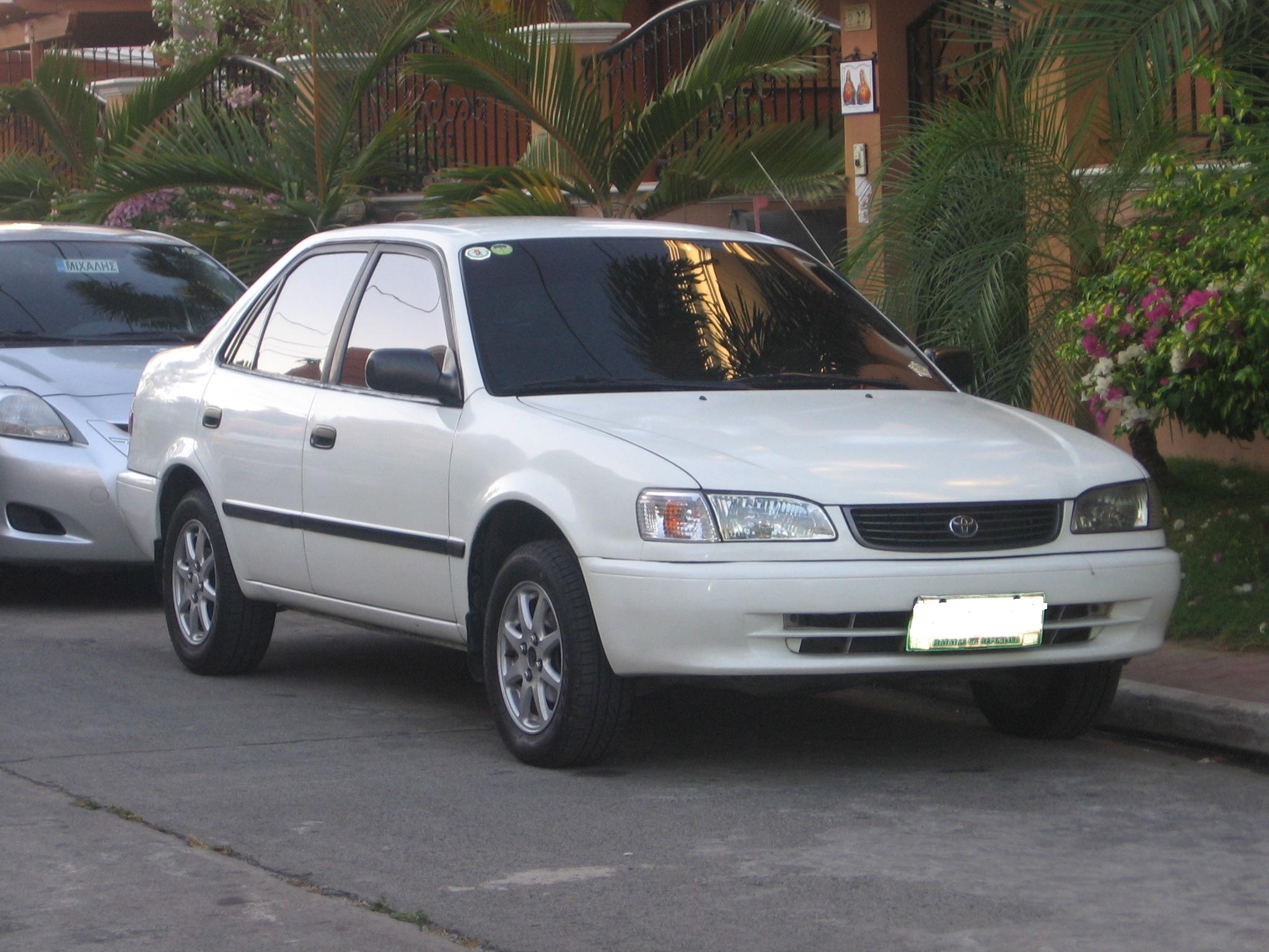 Second Generation Toyota Corolla XL photographed in Cainta Rizal